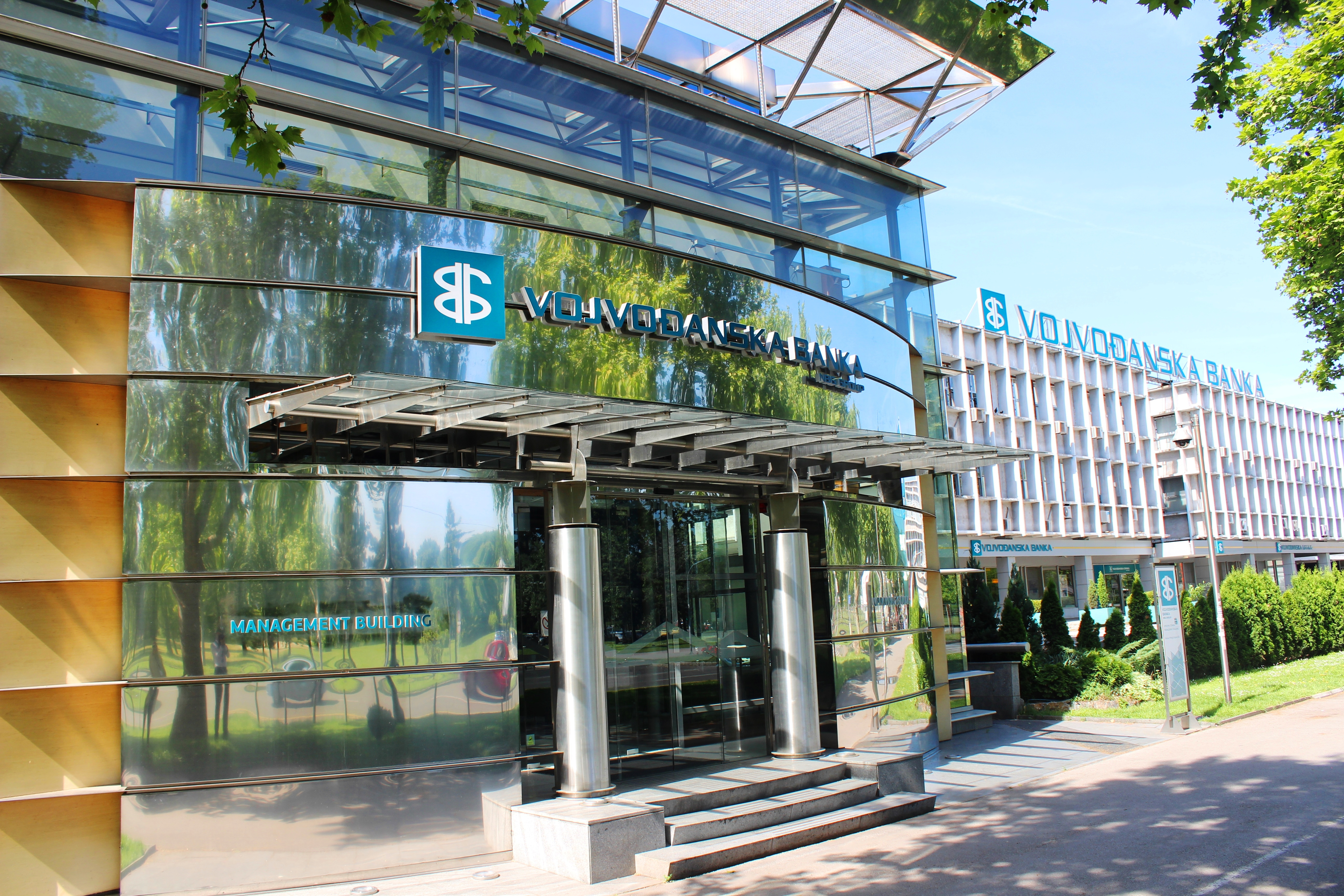 Vojvođanska banka - Management building - Blvd. Mihajla Pupina - Novi Beograd